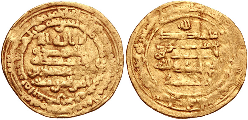 ISLAMIC, Egypt & Syria (Pre-Fatimid). Ikhshidids. Muhammad al-Ikhshid. AH 323-334 / AD 935-946. AV Dinar (23mm, 3.42 g, 3h). Filastin (Palestine) mint. Dated AH 333 (AD 944. Bacharach FG333a; AGC I 342Gn; Album 674. Near VF. Rare.